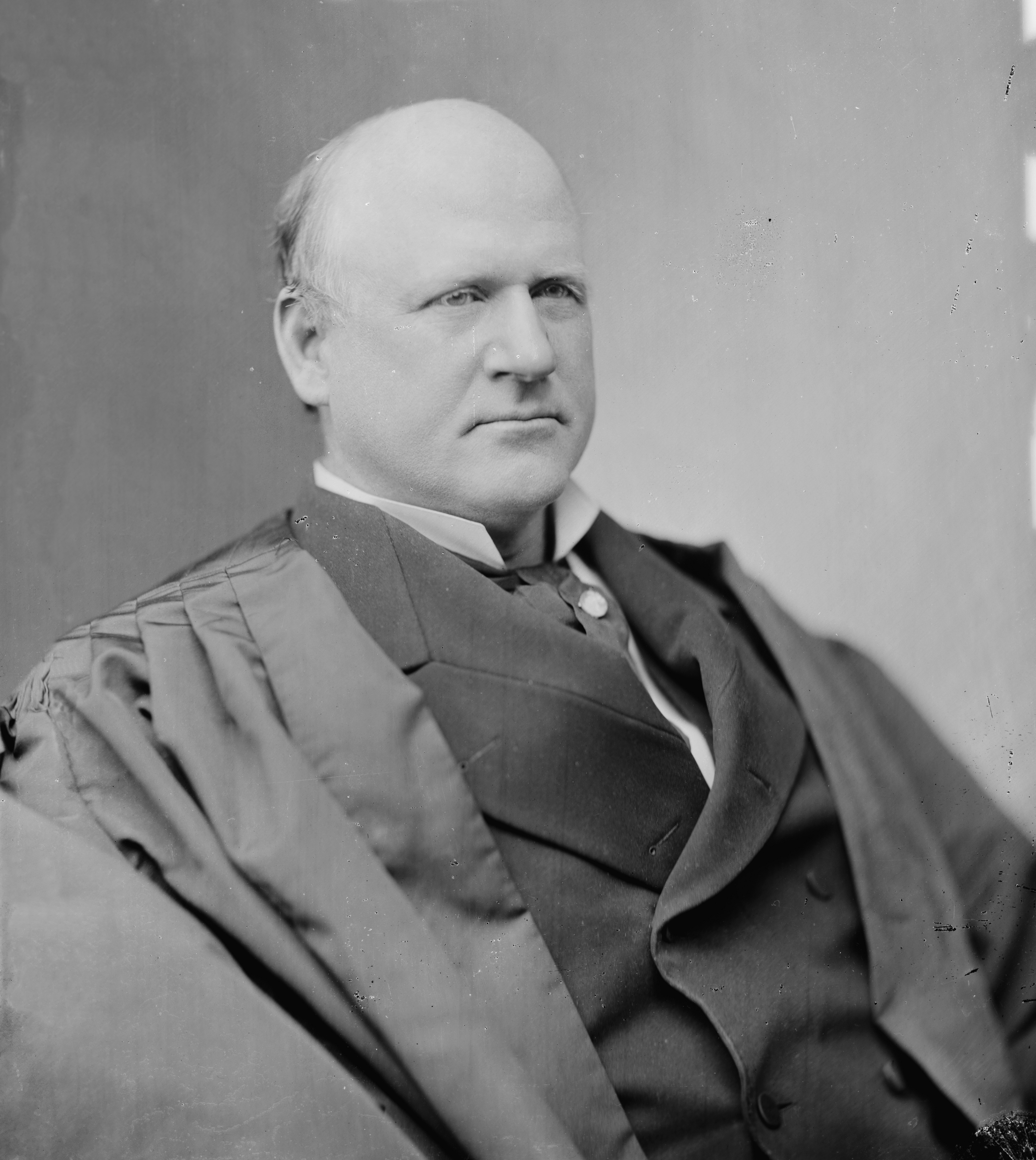 Judge John Marshall Harlan, Supreme Court